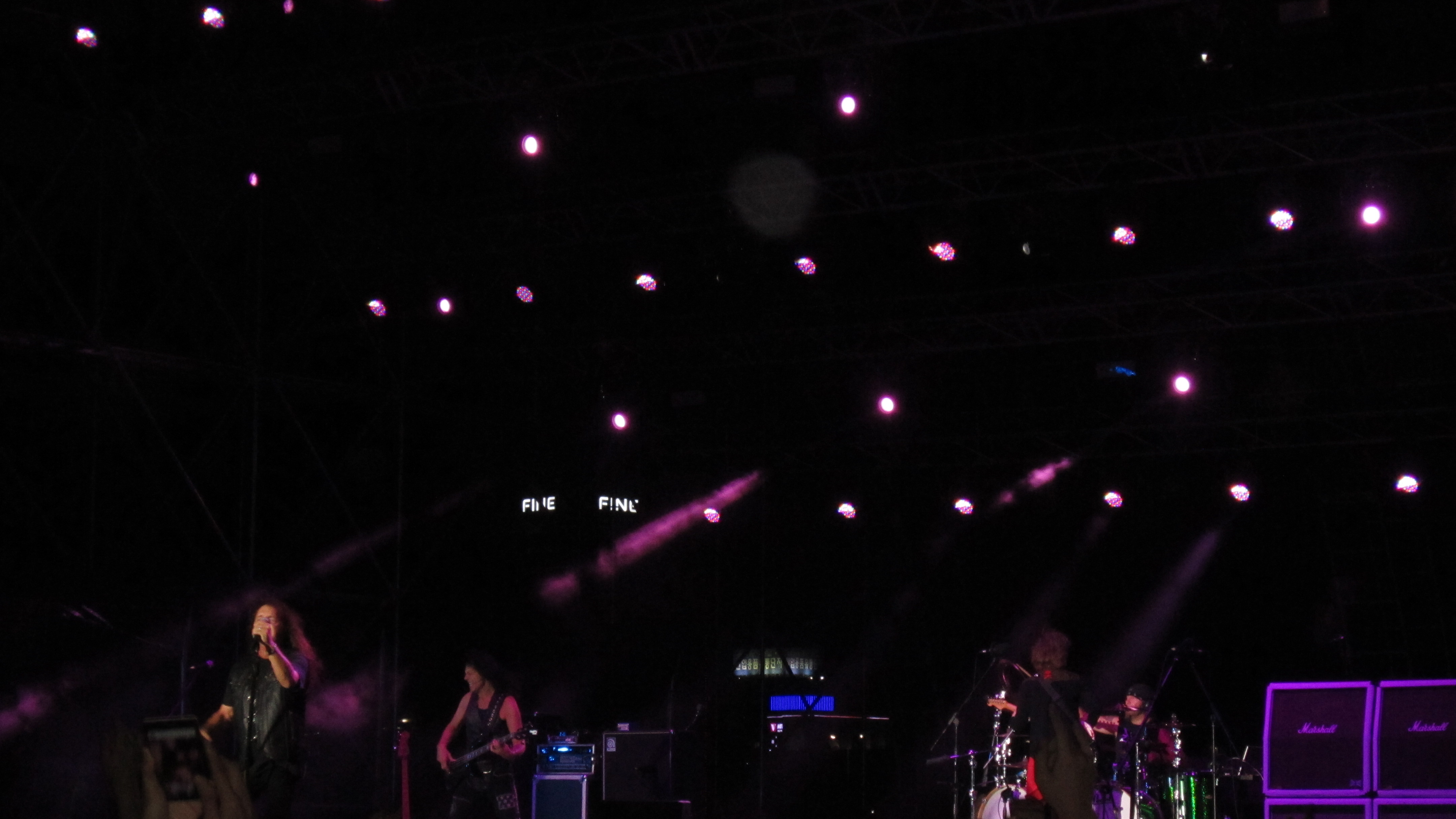 Impellitteri, 2016 Busan International Rock Festival